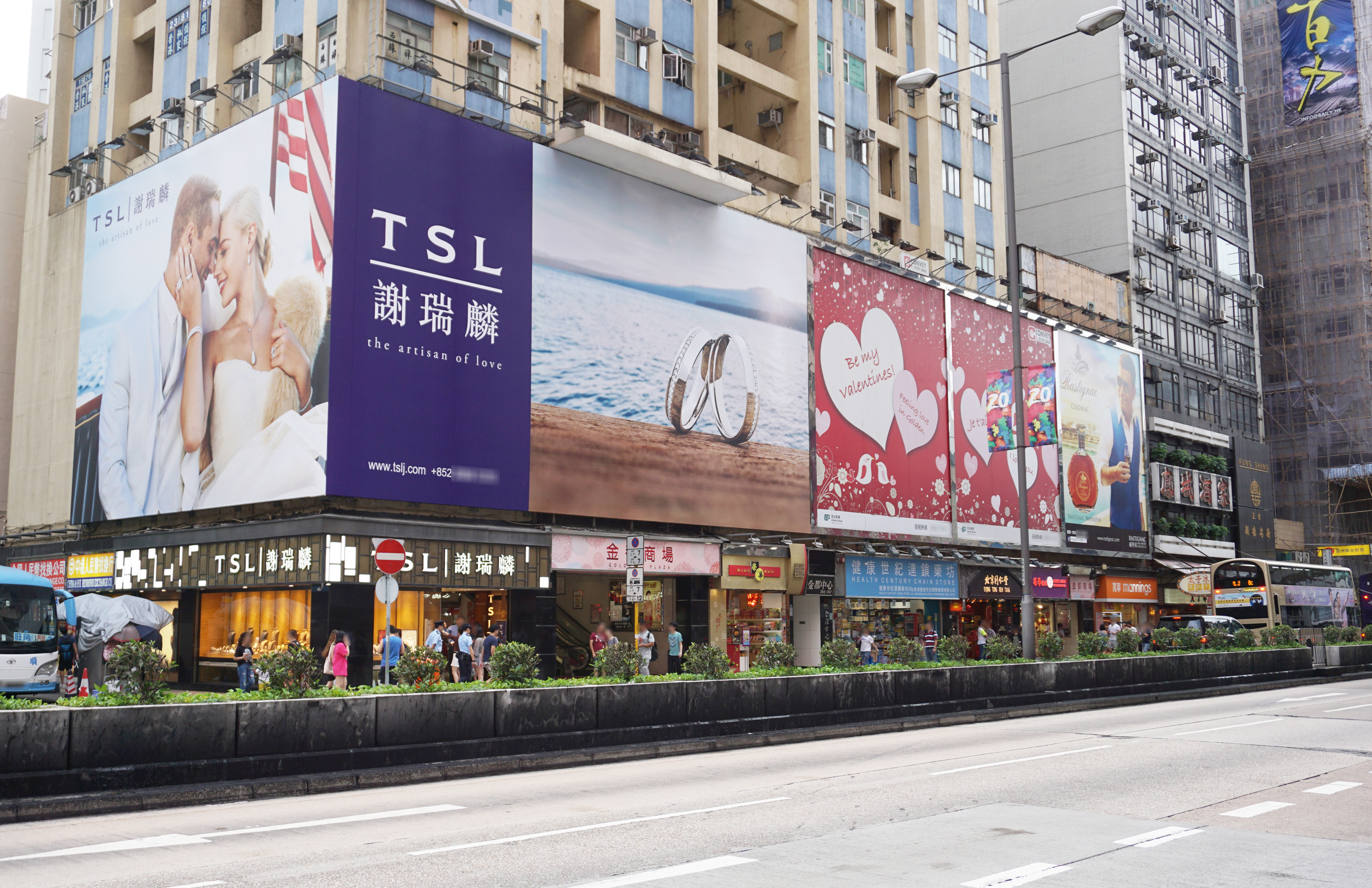 Golden Plaza in Prince Edward, Hong Kong.